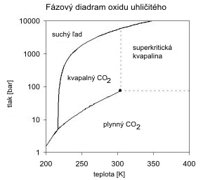 Phase diagram of carbon dioxide